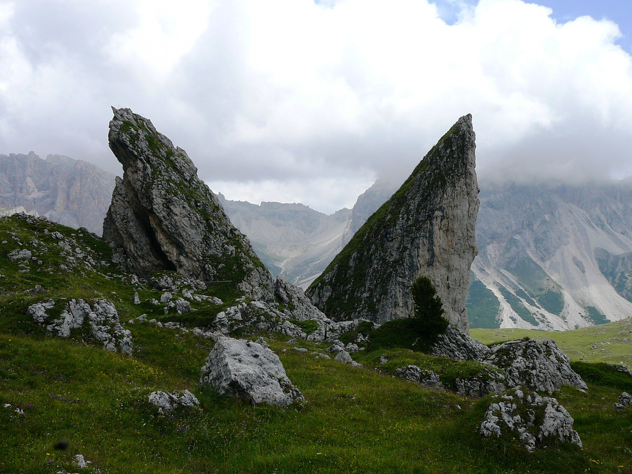 Naturpark Puez-Geisler, South Tyrol